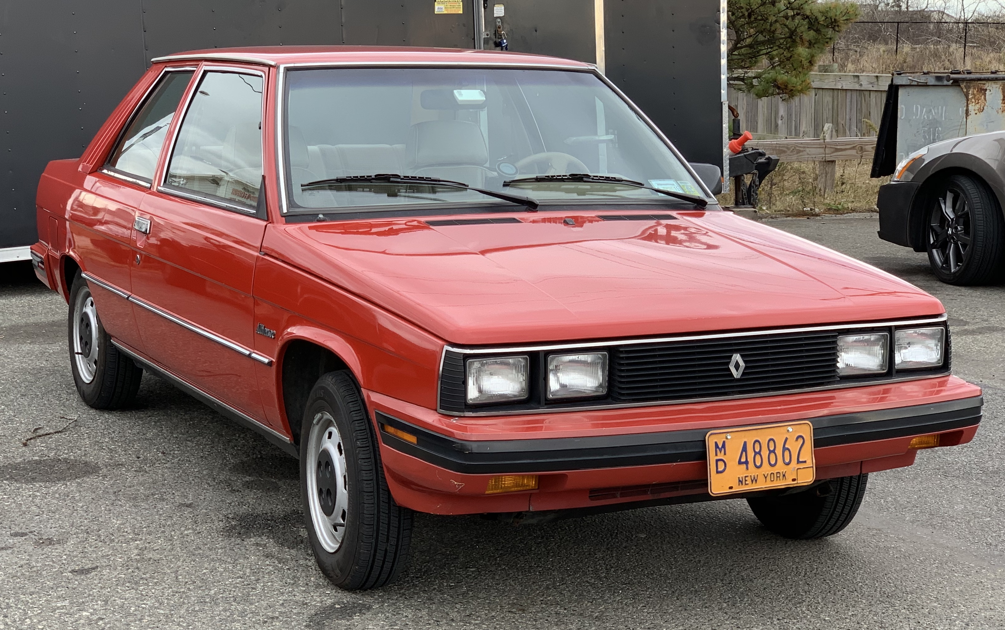 1985 Renault Alliance